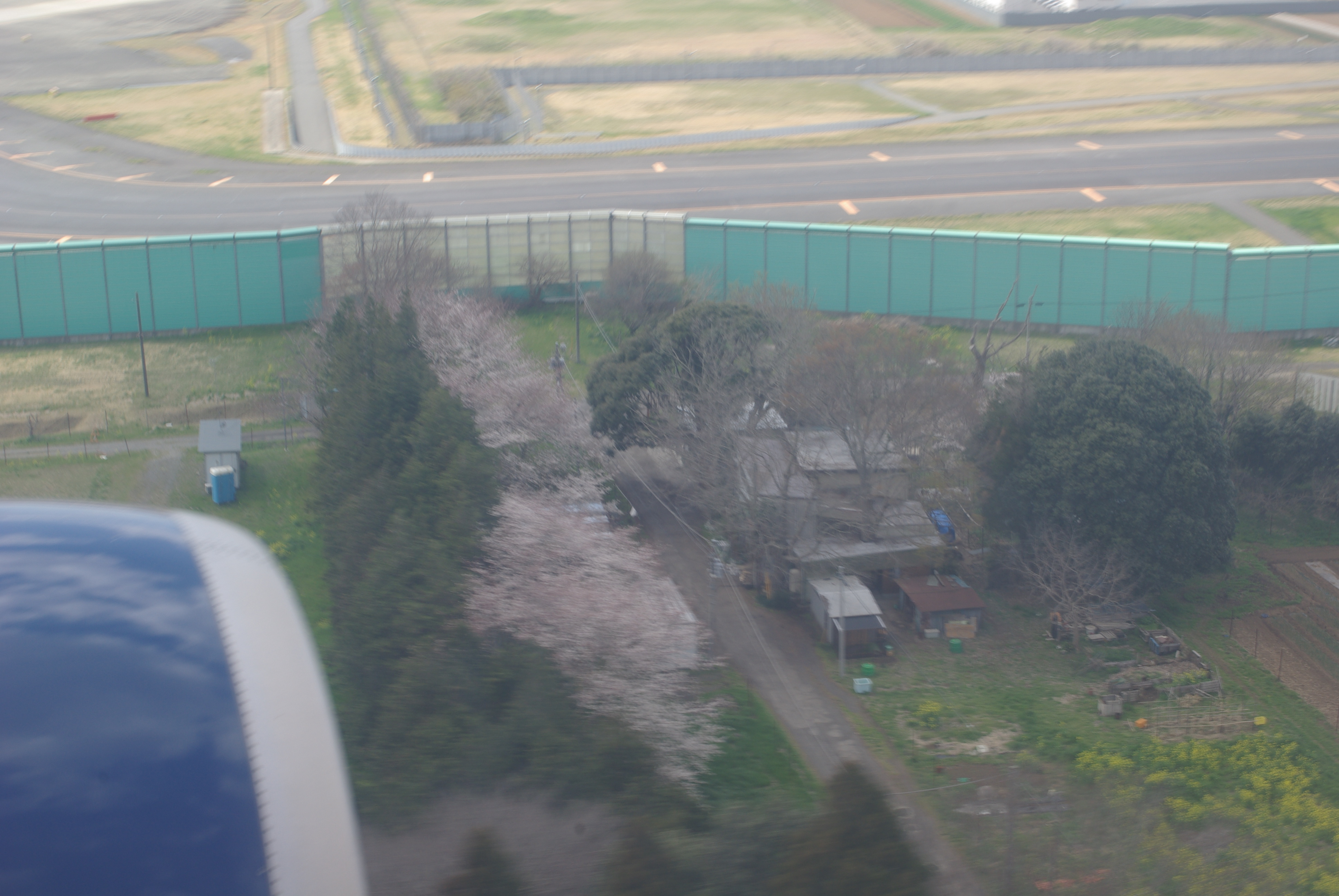 Narita airport